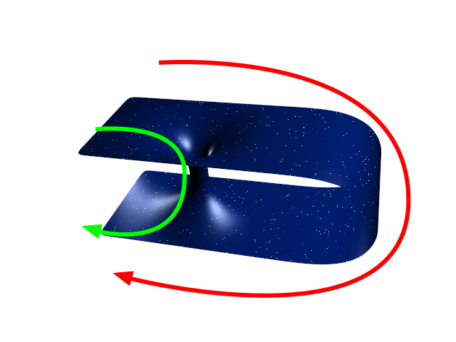 2D analogy to a wormhole. green: short way through wormhole red: long way through normal space